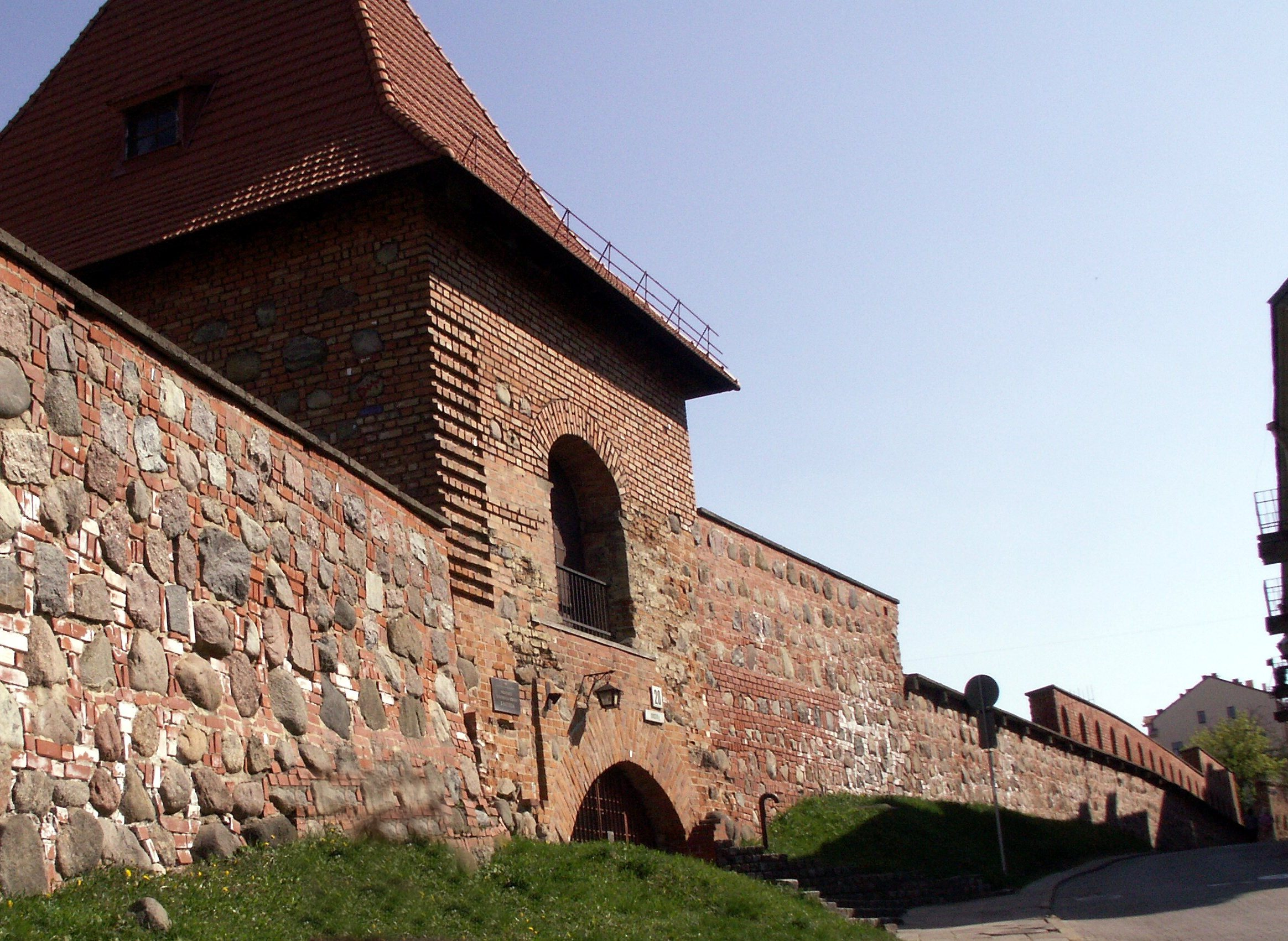 Barbacane, Vilnius, Lithuania